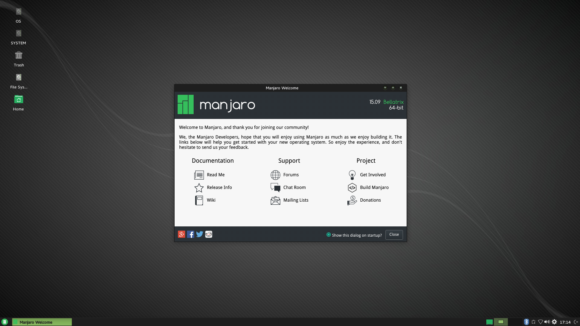 The default look of Manjaro Linux 15.09